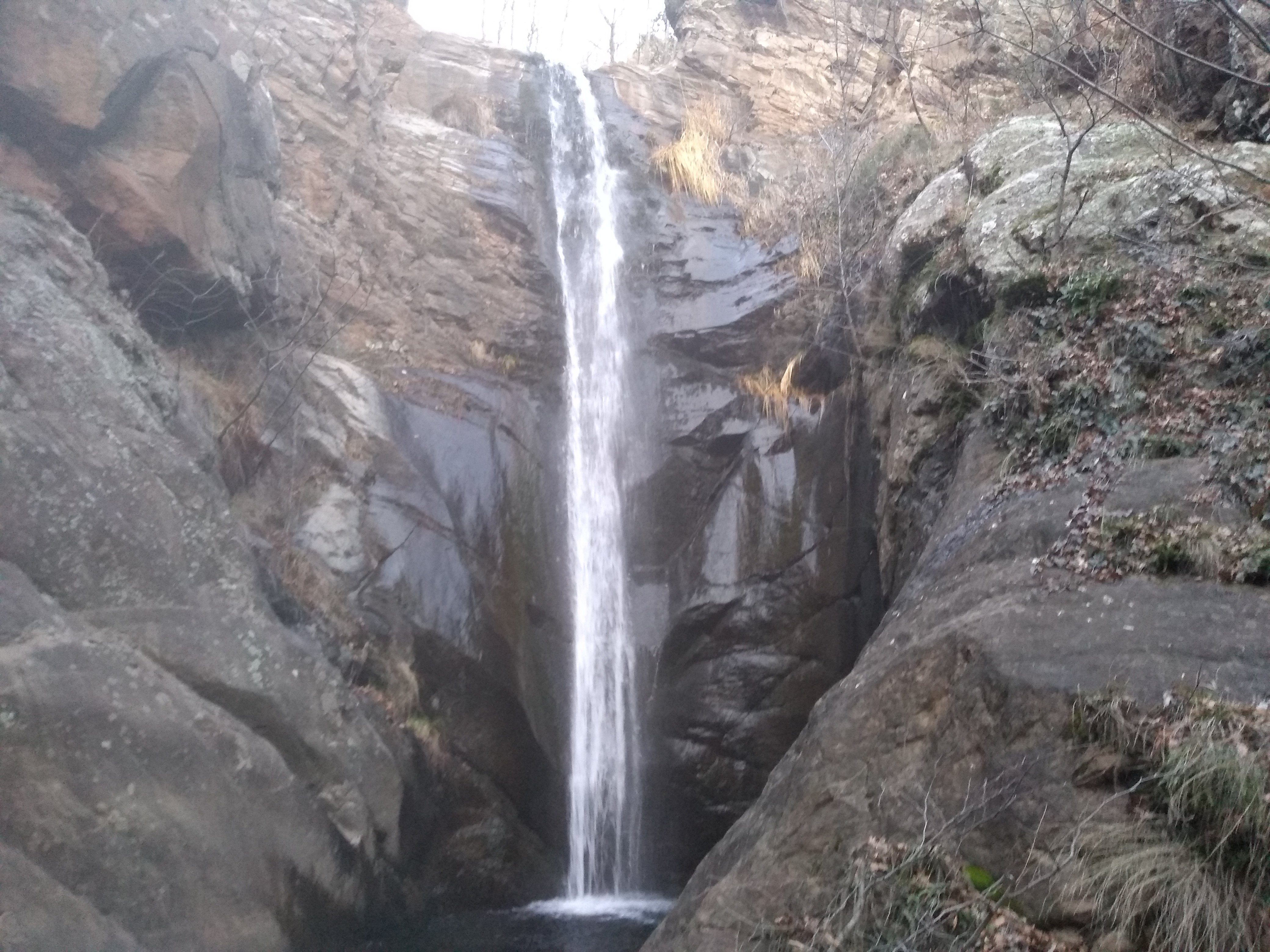 Devil's waterfall in Belasica mountain in Valandovo region, Macedonia